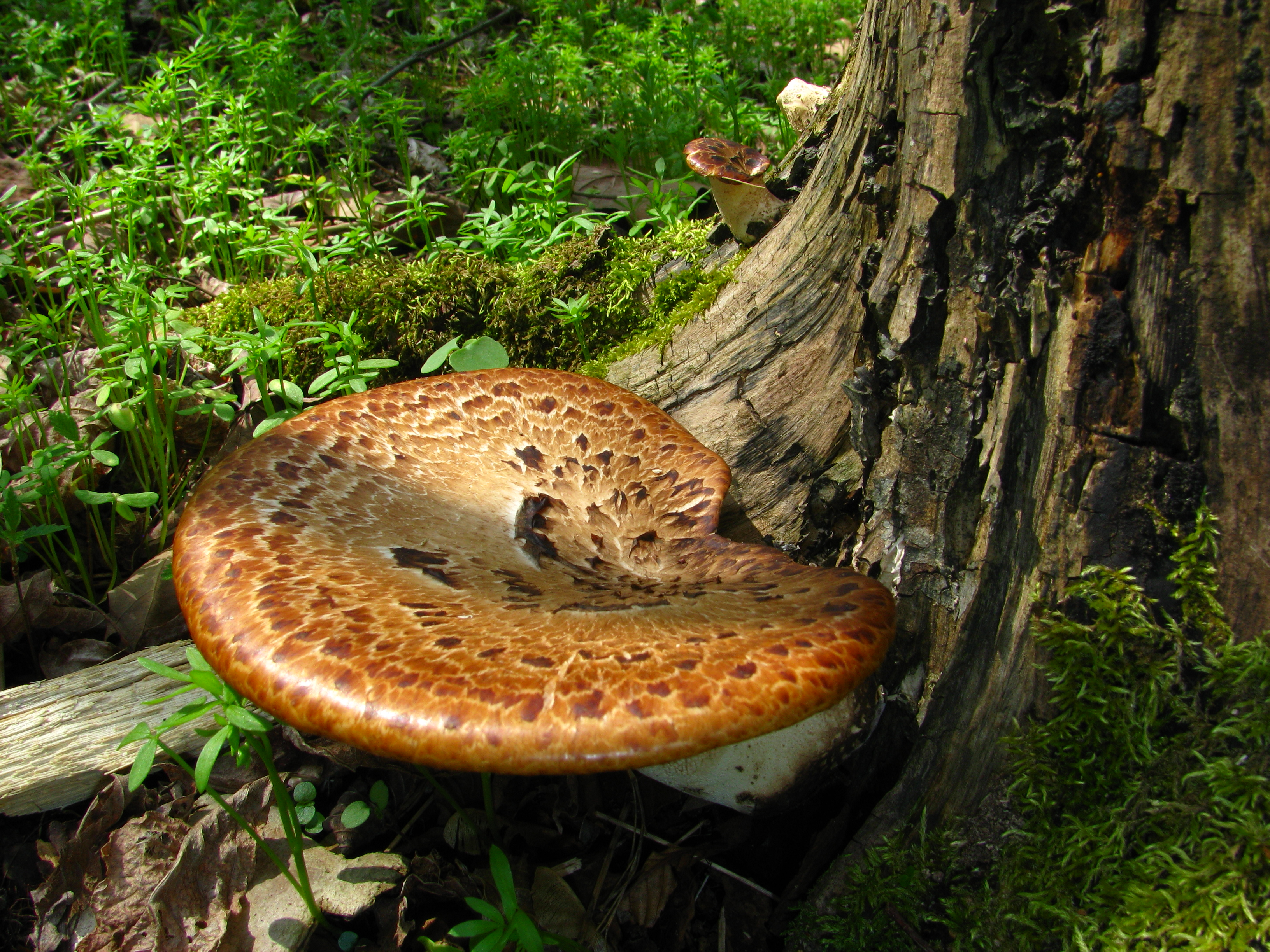 Polyporus squamosus Huds. ex Fr. Location: Strouds Run State Park, Athens, Ohio, USA For more information about this, see the observation page at Mushroom Observer.